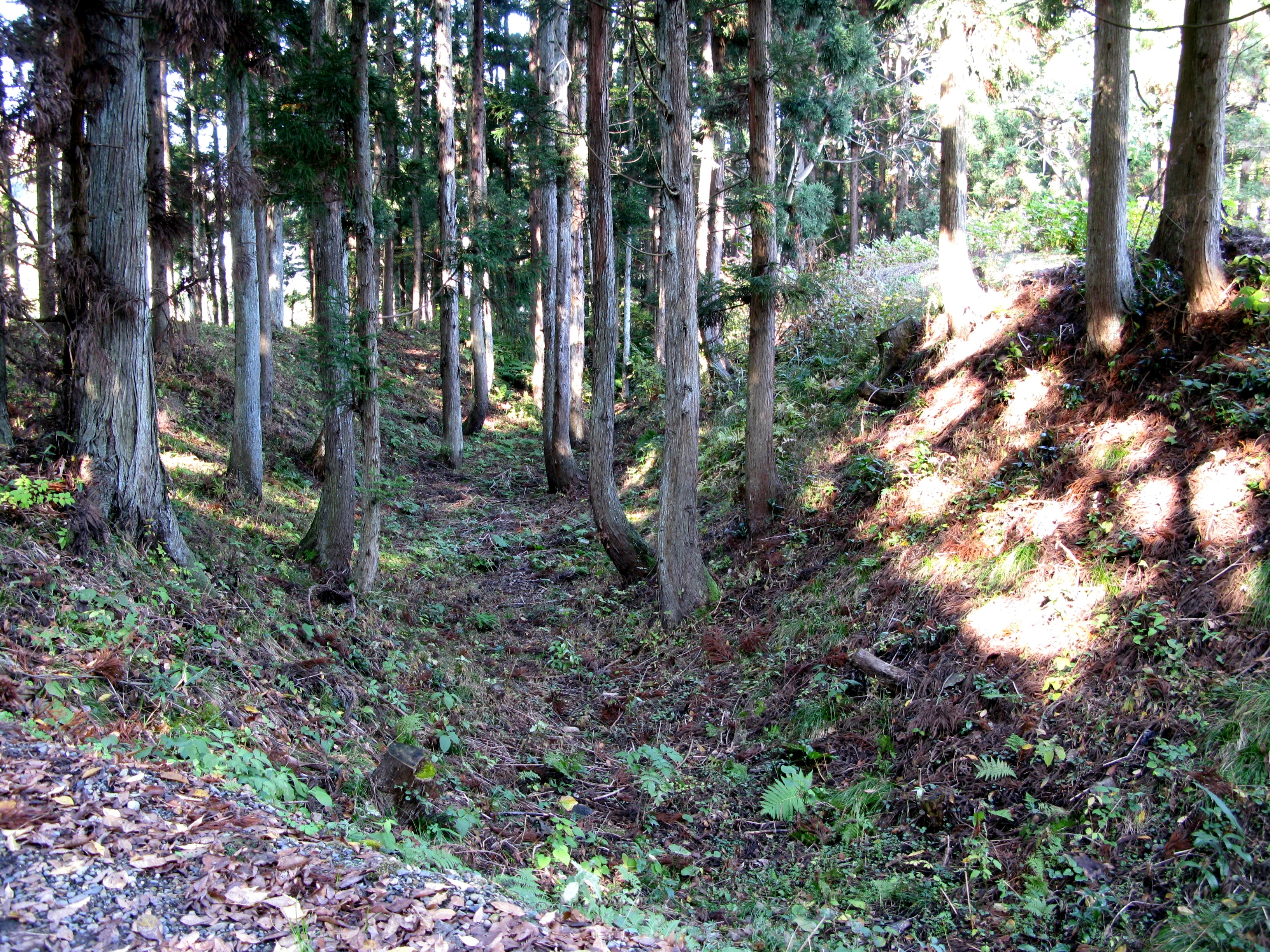 Historic site, Jingaminejo-ato, Aizubange town, Fukushima pref., Japan